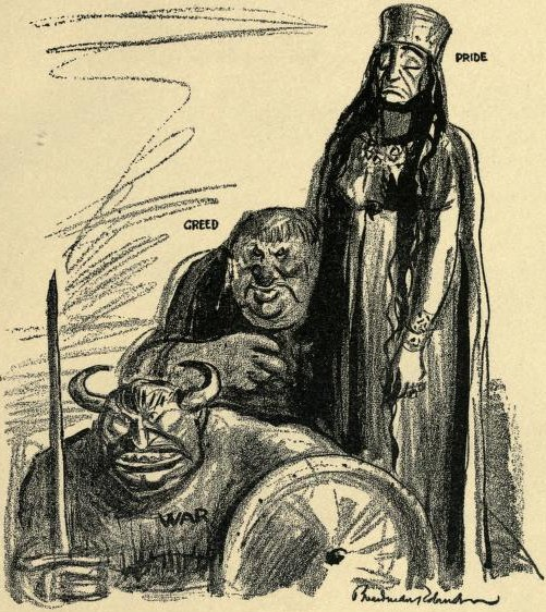 The Father and Mother by Boardman Robinson. Anti-war cartoon depicting Greed and Pride as the father and mother of War. First published circa 1915.